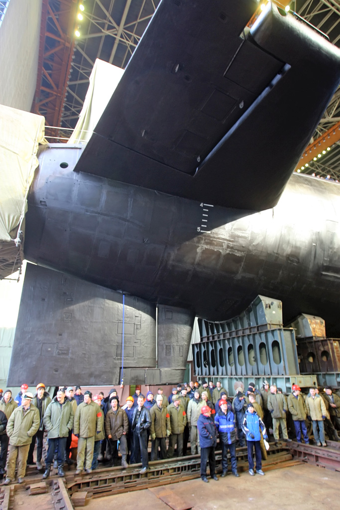 “Launching the new strategic nuclear submarine "Yury Dolgoruky"”. Launching the new strategic nuclear submarine "Yury Dolgoruky" at the Sevmash shipyard.